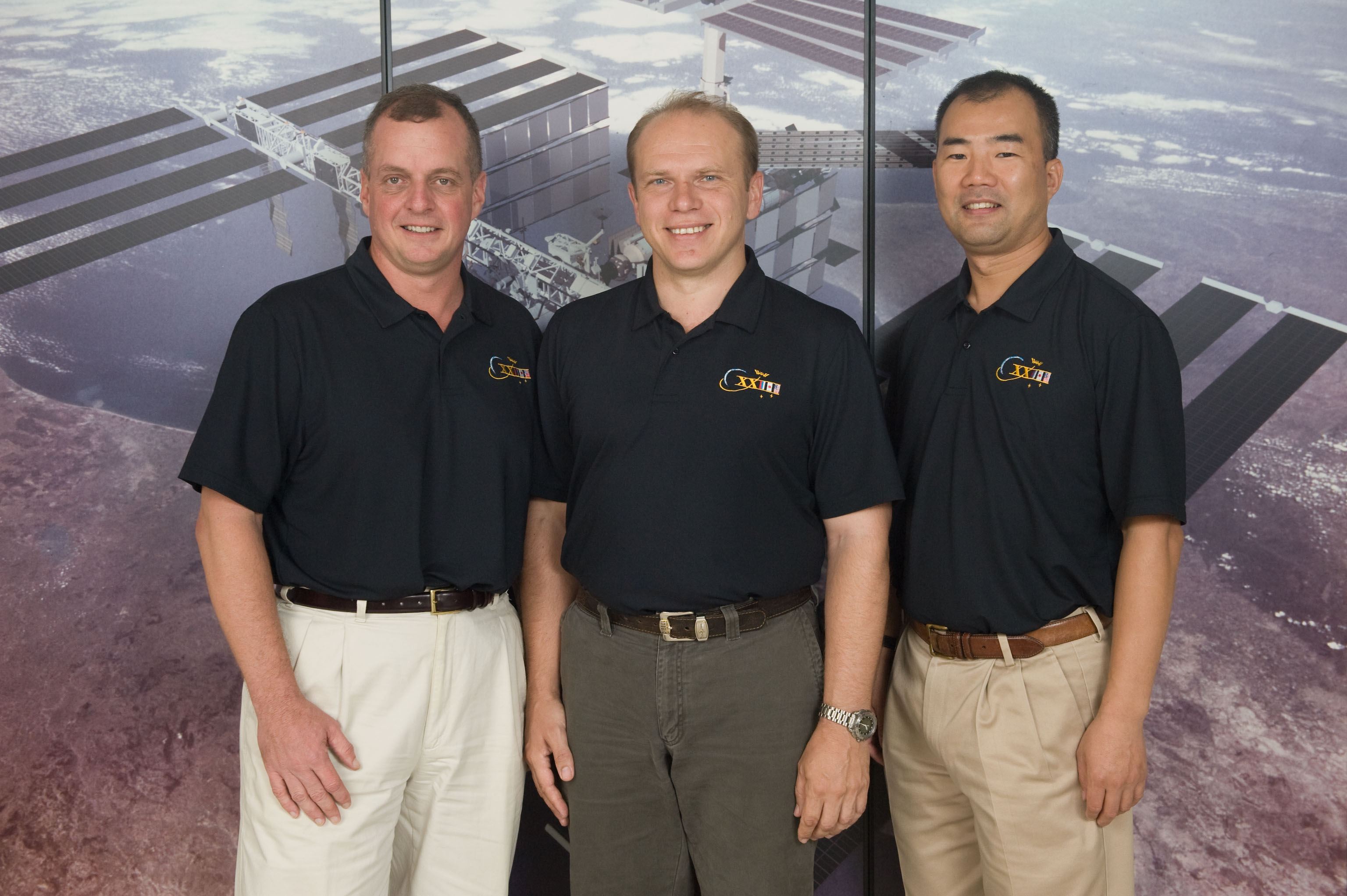 Russian cosmonaut Oleg Kotov (center), Expedition 22 flight engineer and Expedition 23 commander; along with NASA astronaut T.J. Creamer (left) and Japan Aerospace Exploration Agency (JAXA) astronaut Soichi Noguchi, both Expedition 22/23 flight engineers, pose for a portrait following an Expedition 22/23 preflight press conference at NASA's Johnson Space Center. Kotov, Creamer and Noguchi are scheduled to launch to the International Space Station aboard a Russian Soyuz spacecraft in December 2009.